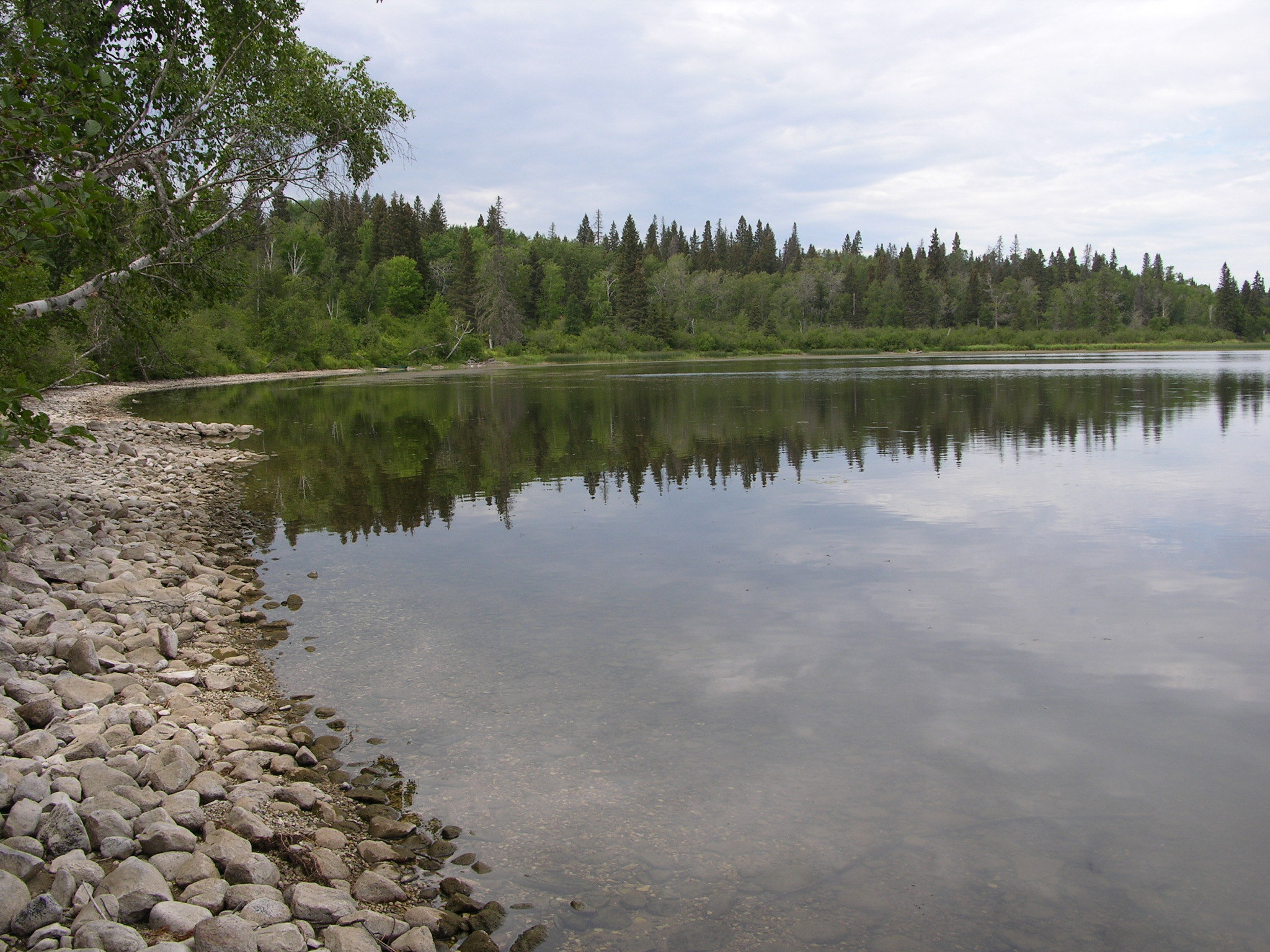 Moon Lake shoreline in Riding Mountain National Park, Manitoba